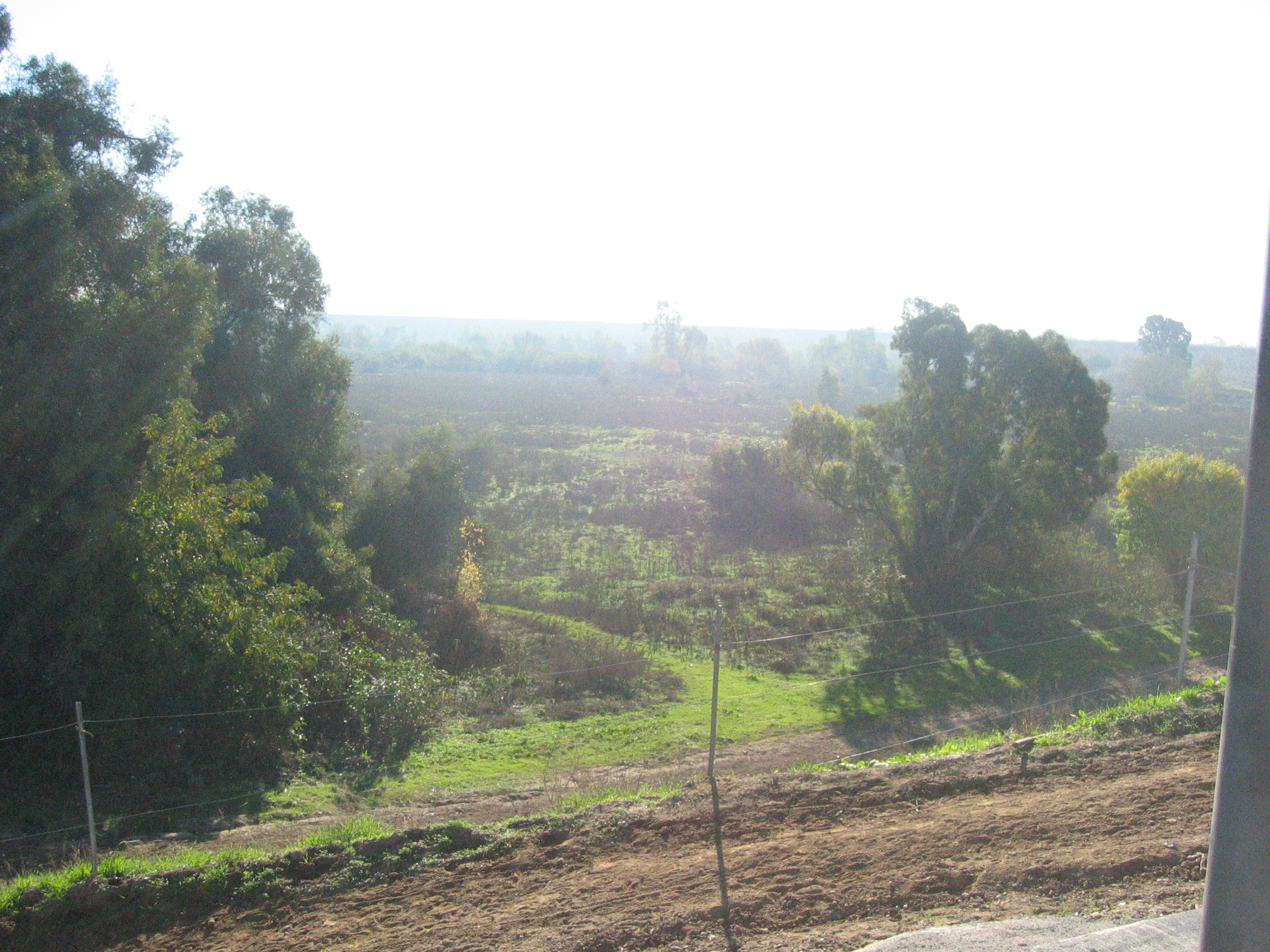 I took this picture A view towards the north from Whittier Narrows Dam